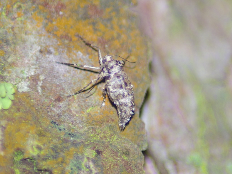 Agriopis leucophaearia female. Location: The Netherlands - Huttenheugte - Recreatiegebied